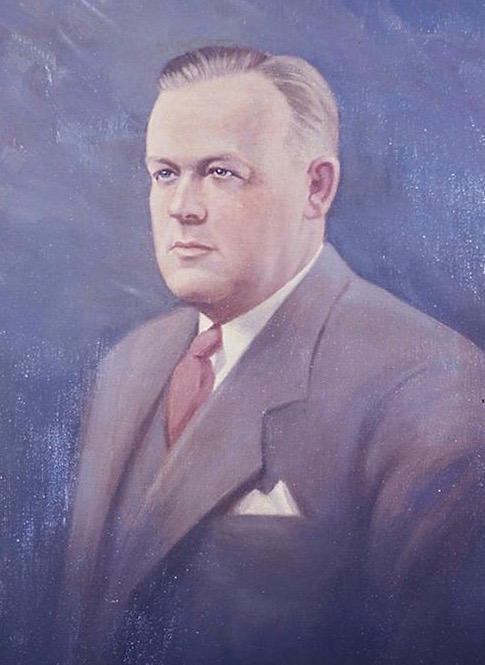 Collection: Governors Portraits photograph collection Call number: PI/1989.0008 System ID: 98802. Link to the catalog Governor Martin S. Conner, Jan. 19, 1932 to Jan. 21, 1936. Please see our profile page for information on ordering. Scanned as tiff in 2008/09/22 by MDAH. Credit: Courtesy of the Mississippi Department of Archives and History